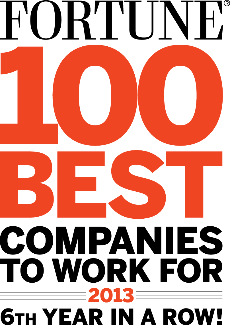 In 2013, Southern Ohio Medical Center was featured on FORTUNE Magazine's list of 100 Best Companies to Work For for the sixth consecutive year. They were ranked 29th.